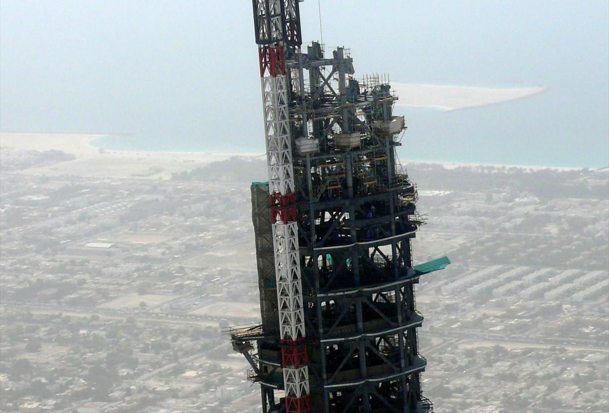 This is a photo showing the construction of the Burj Khalifa, located in Dubai, United Arab Emirates, on 8 May 2008. The Persian Gulf can be seen in the background. This photo was taken from a helicopter ride courtesy of Nakheel.